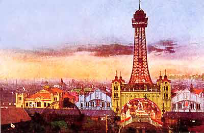 The Original Tūtenkaku and Shinsekai Luna Park in twilight